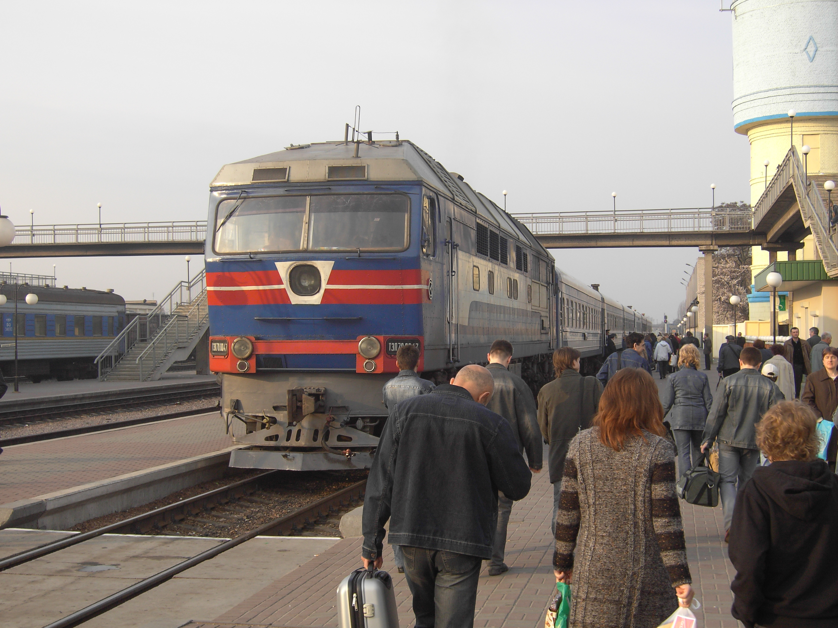 Ukrainian diesel locomotive TEP70-0047 at Krementschug main station